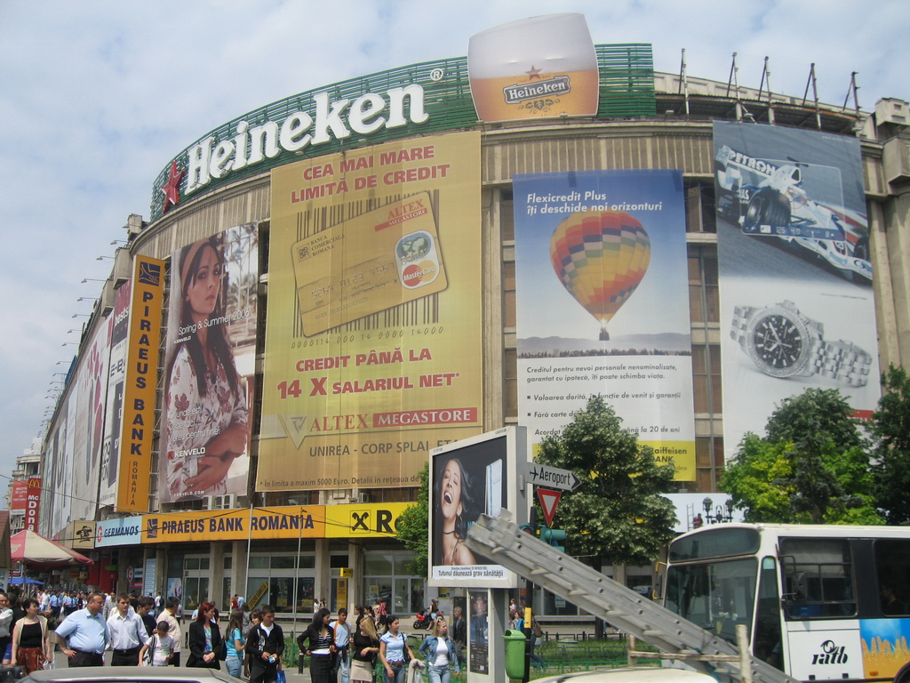 Unirea Shopping Center